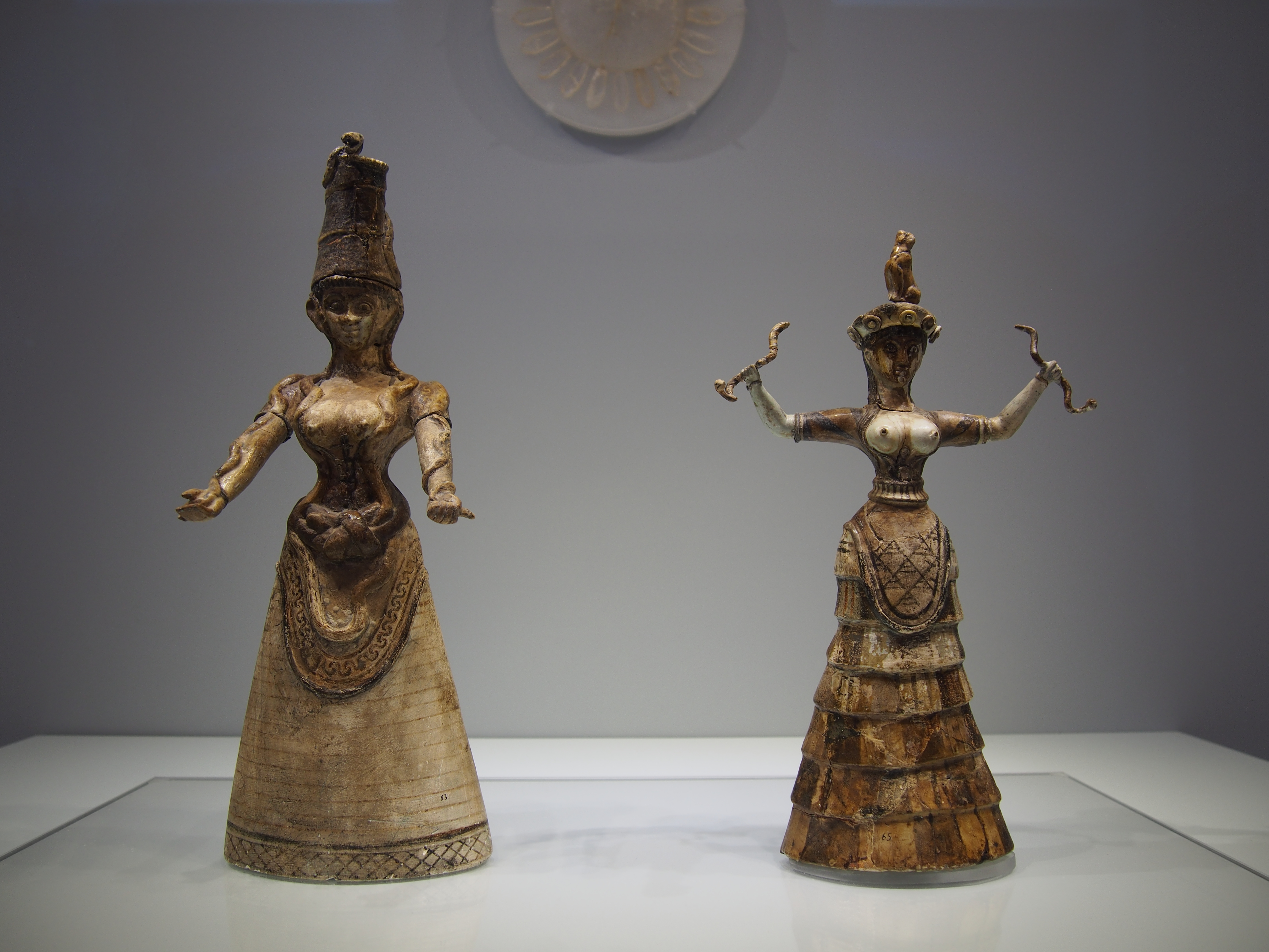 The two statues known as the snake goddess, considered to depict the ground goddess of a snake, maybe mother and daughter.